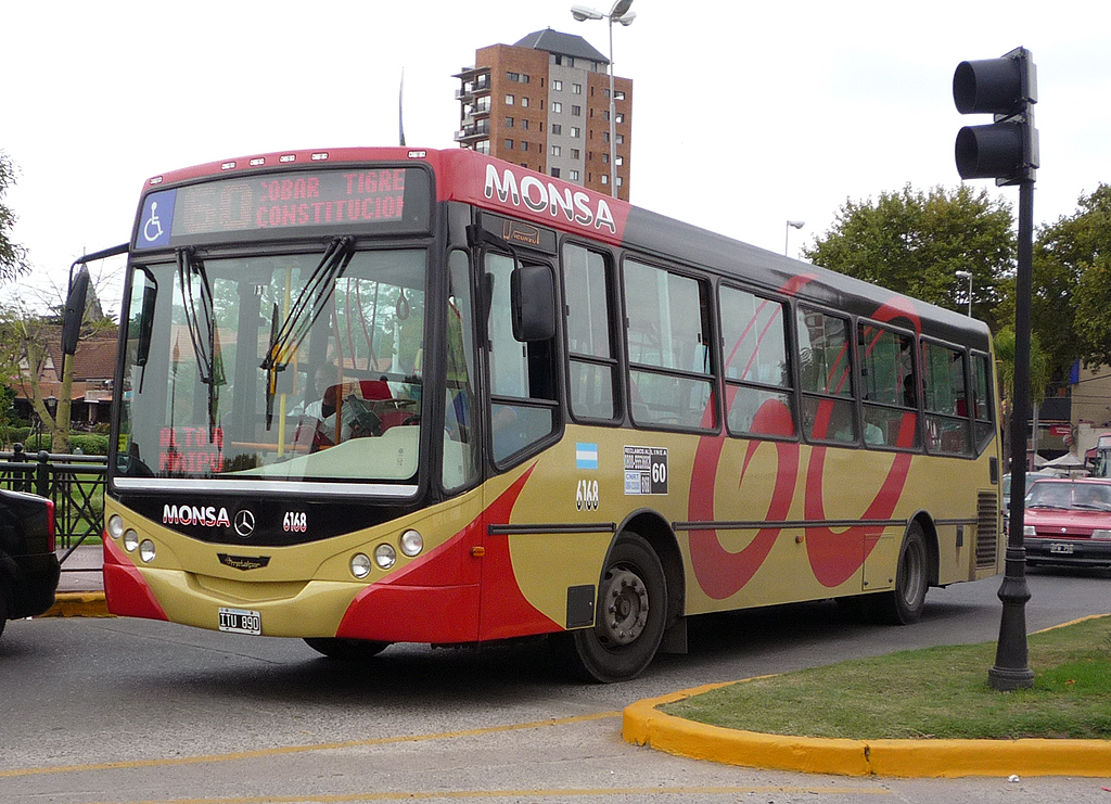 Metalpar Iguazú II bus (reg. ITU 890, #6168) with Mercedes-Benz OH 1618 L chassis in Tigre, Buenos Aires Province, Argentina. Built 2010 or 2011. Colectivo, line 60, Micro Ómnibus Norte S.A. operator.